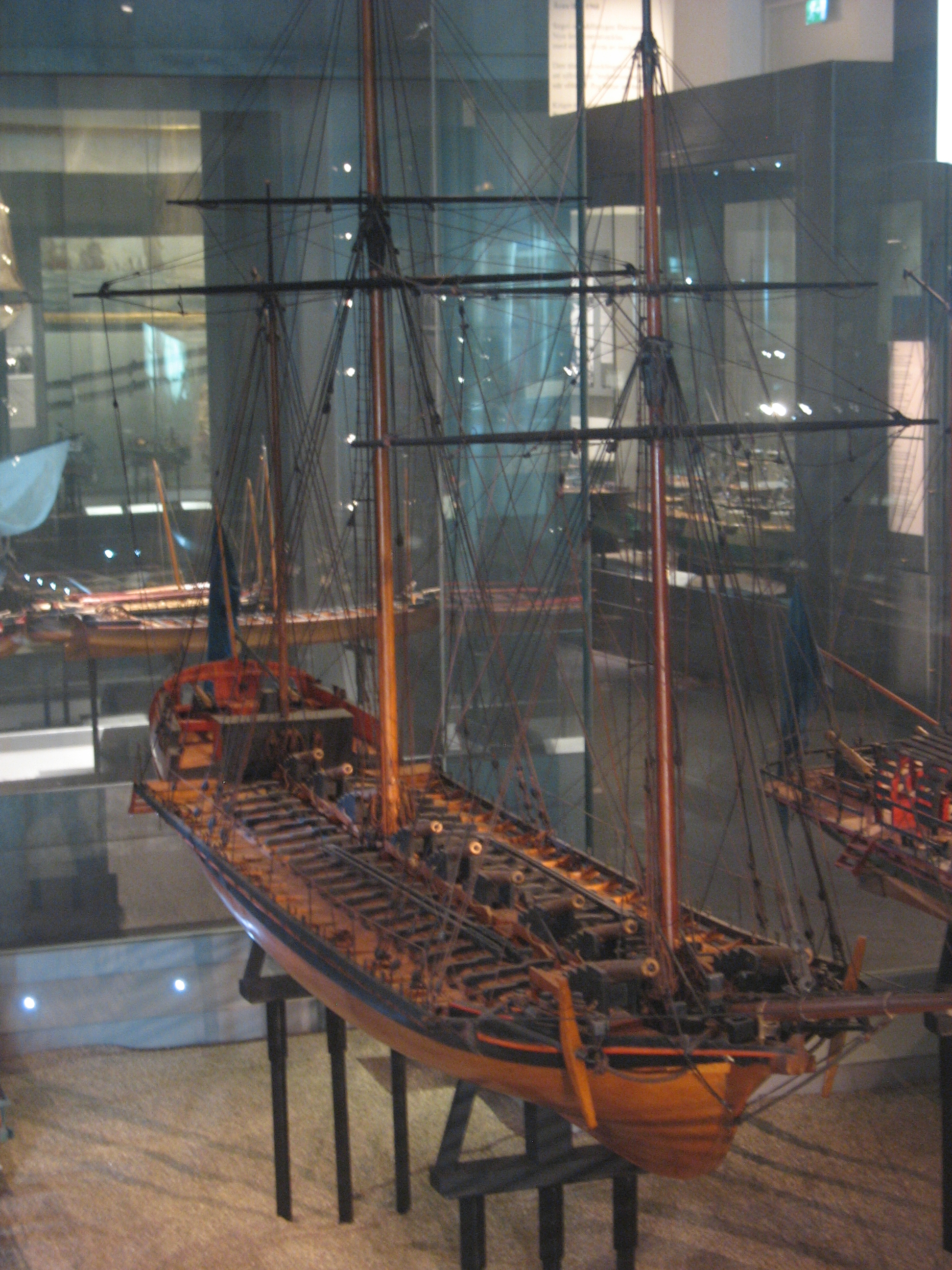 Contemporary model of the udema Ingeborg (built 1776) at the Maritime Museum in Stockholm. Scale 1:16.